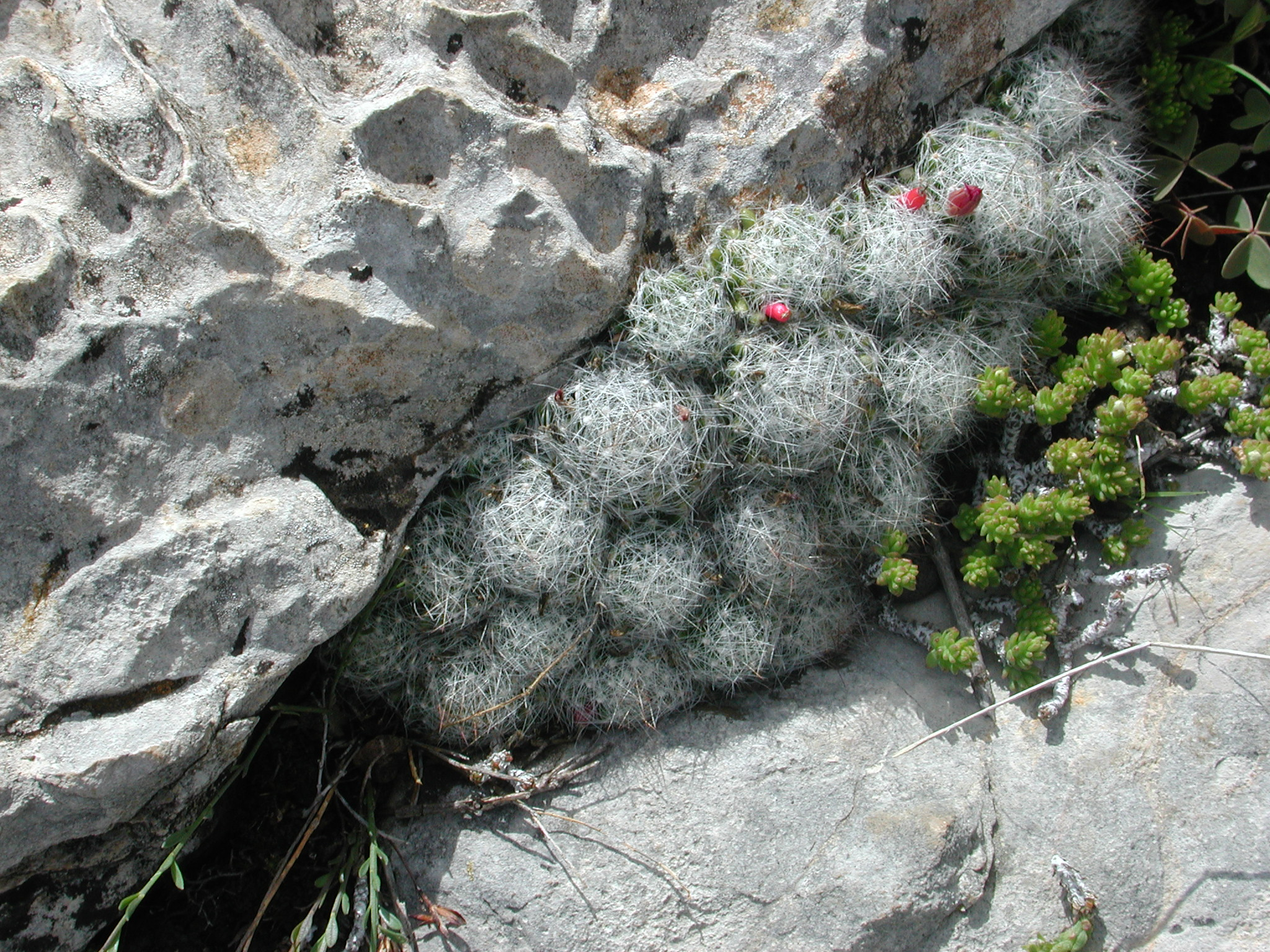 Mammillaria Kraehenbuehlii. Picture taken in oaxaca. Own work